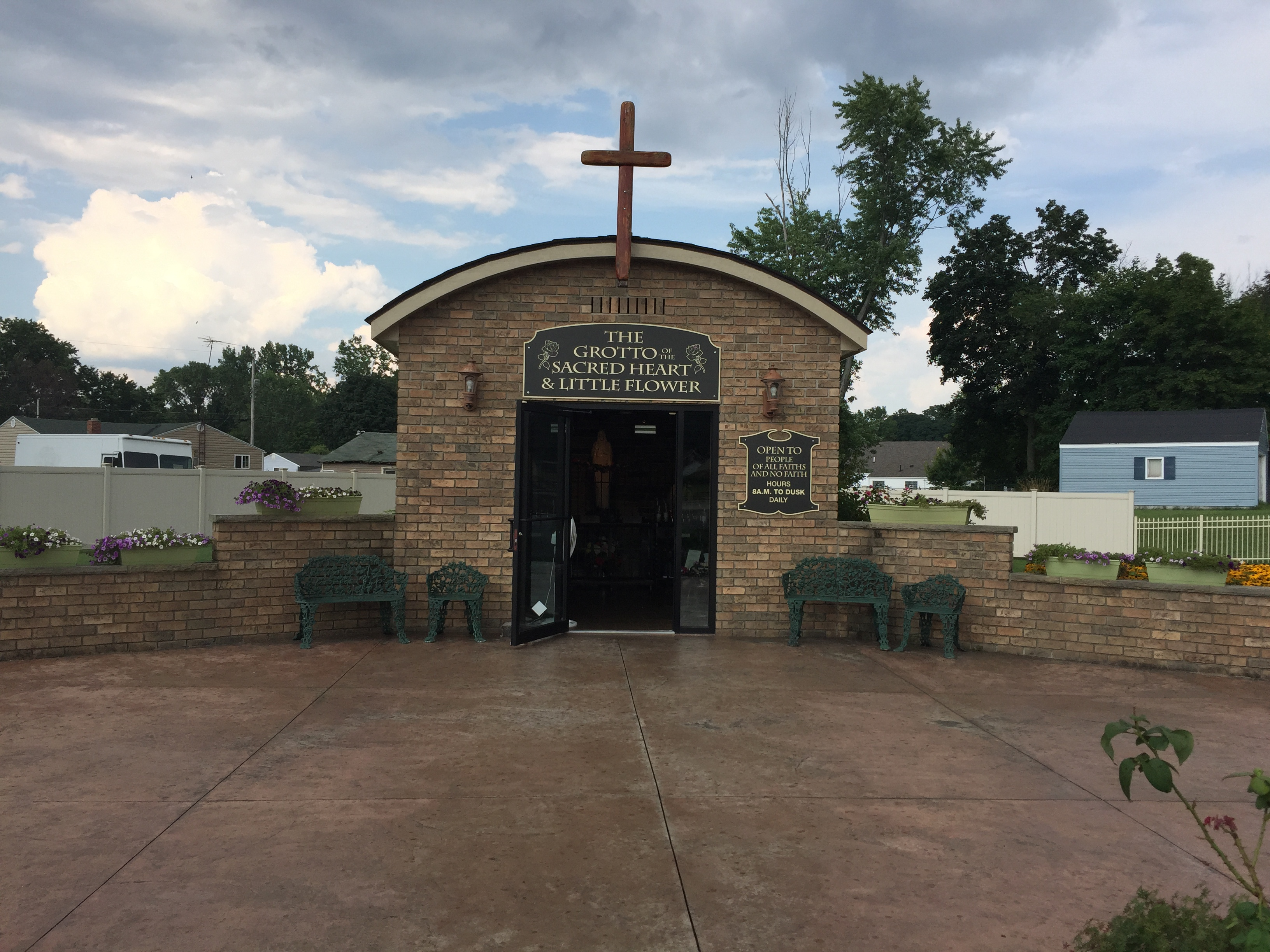 Prayer chapel at Rhoda Wise Shrine in Canton, Ohio, August 2017